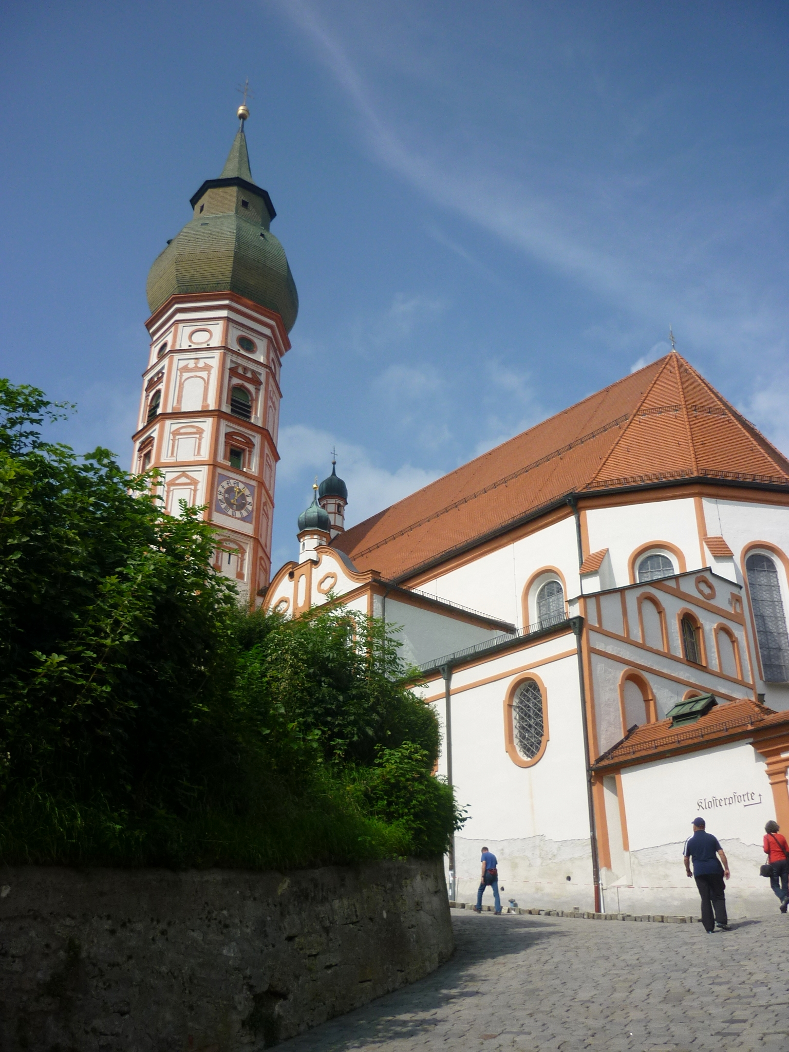 Andechs Church